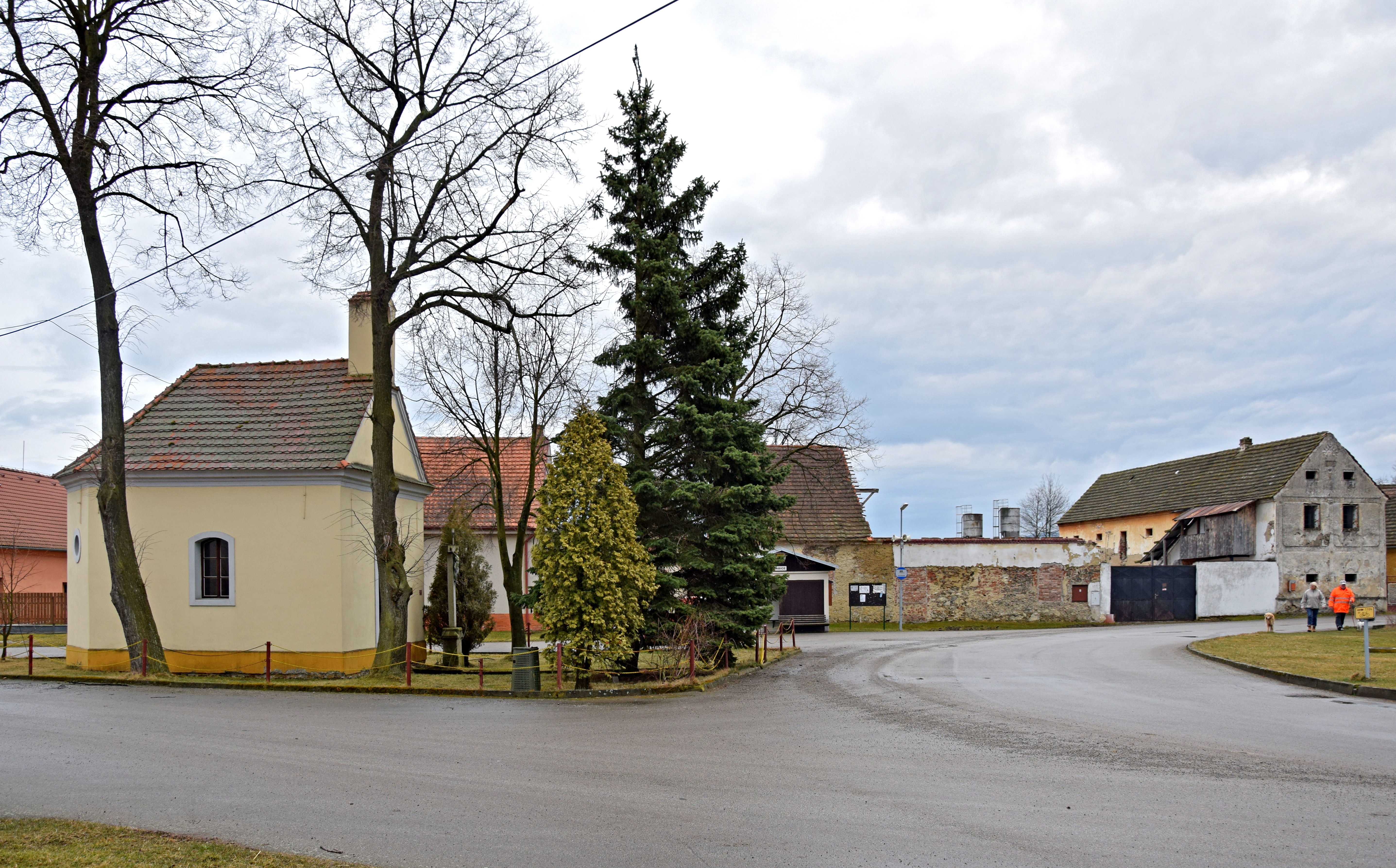 Village of Babice, Prachatice District, the Czech Republic.